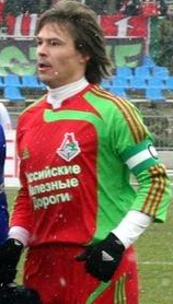 Dmitri Loskov, Russian footballer.